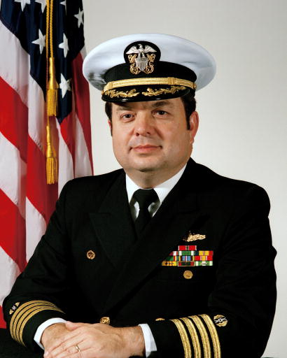 United States Navy Captain William T. Vest.